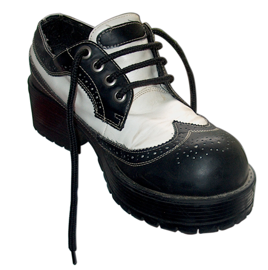 An example of bar lacing on a stompy shoe